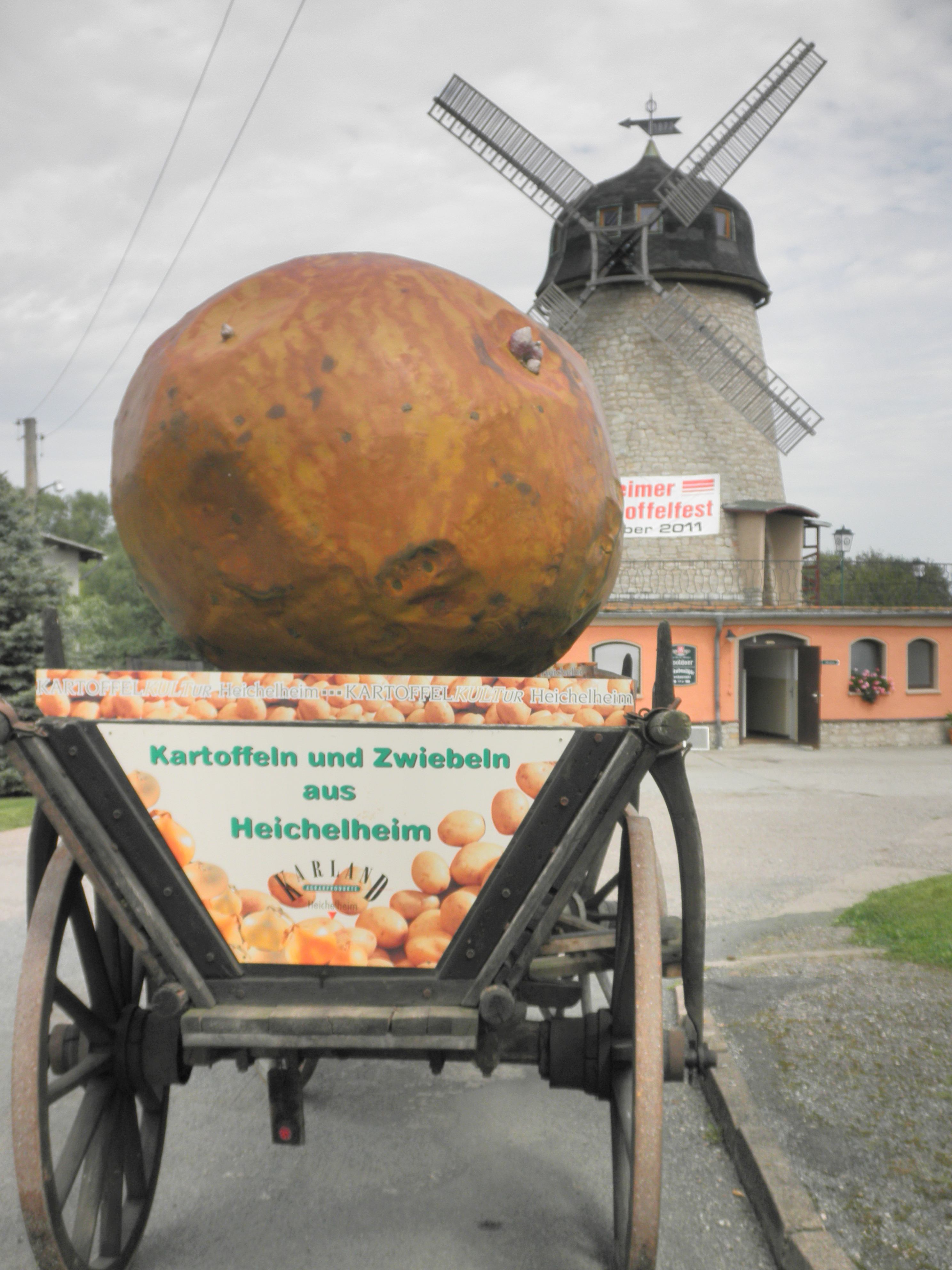 Windmill in Heichelheim in Thuringia